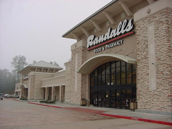 Randall's in The Woodlands